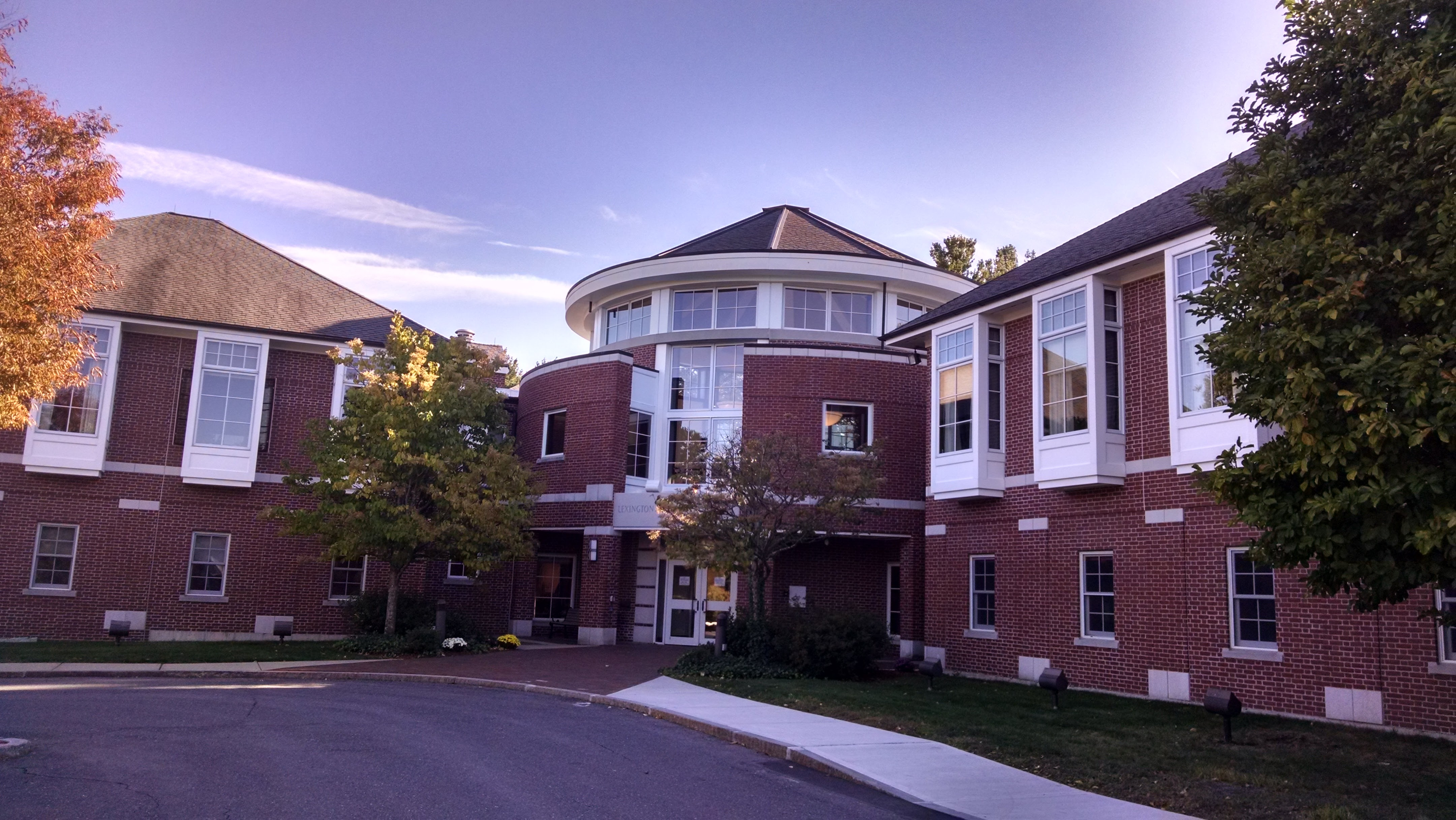 Lexington Community Center